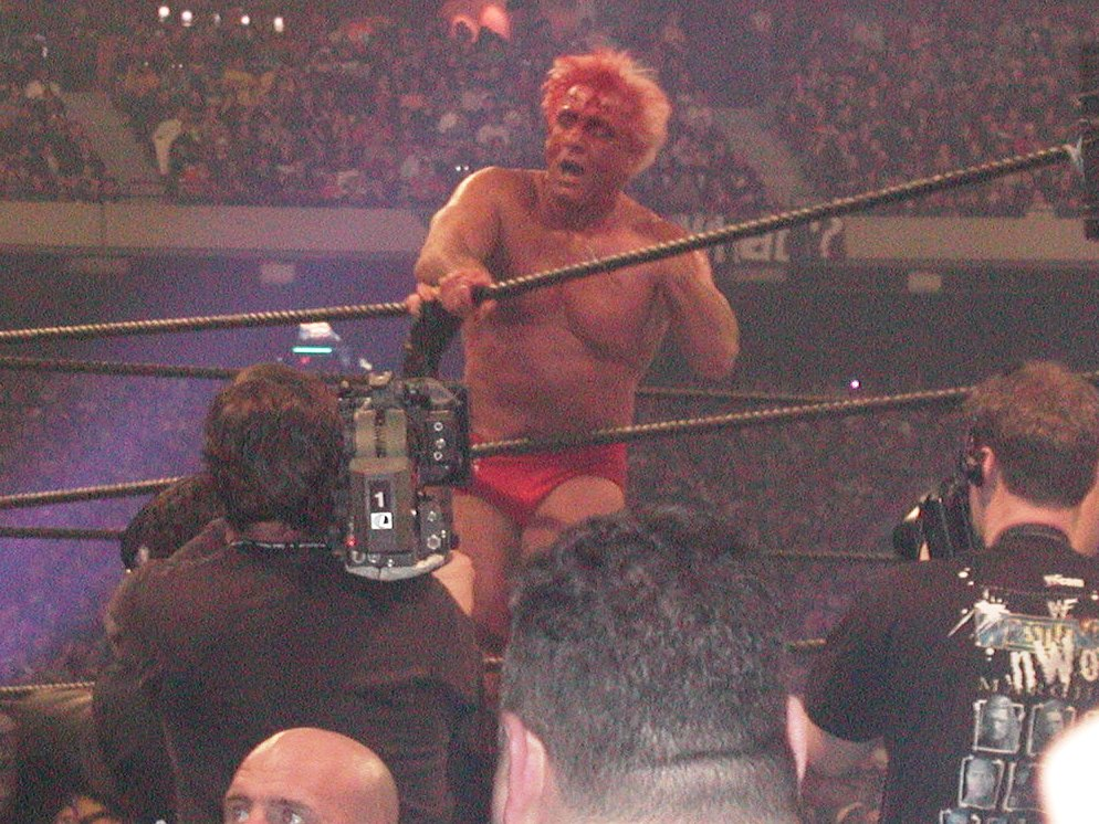 Ric Flair at WrestleMania X8. Skydome, Toronto, ON, March 17 2002. Taken by me.